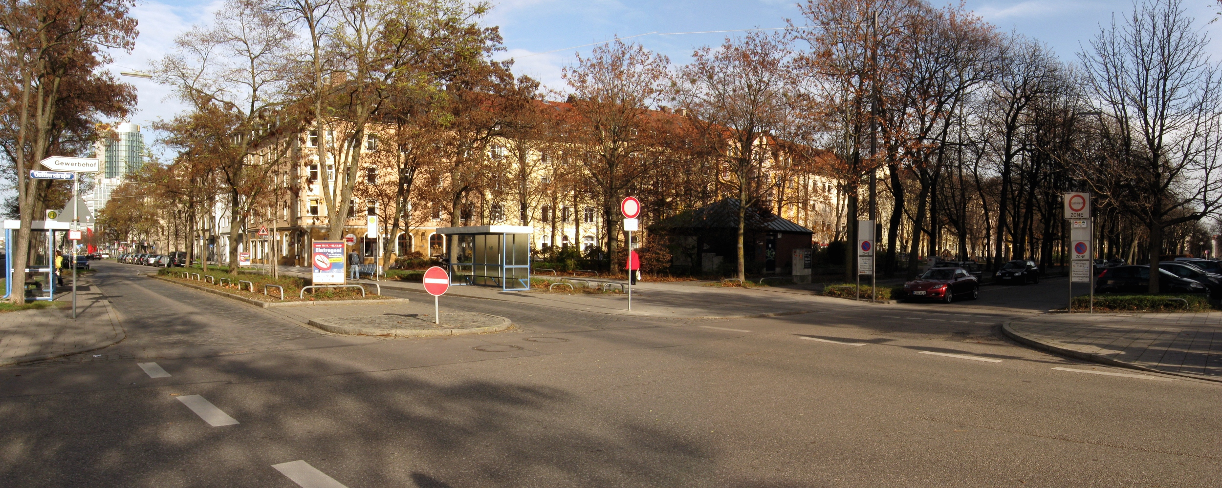 Trappentreustraße at the Gollierplatz